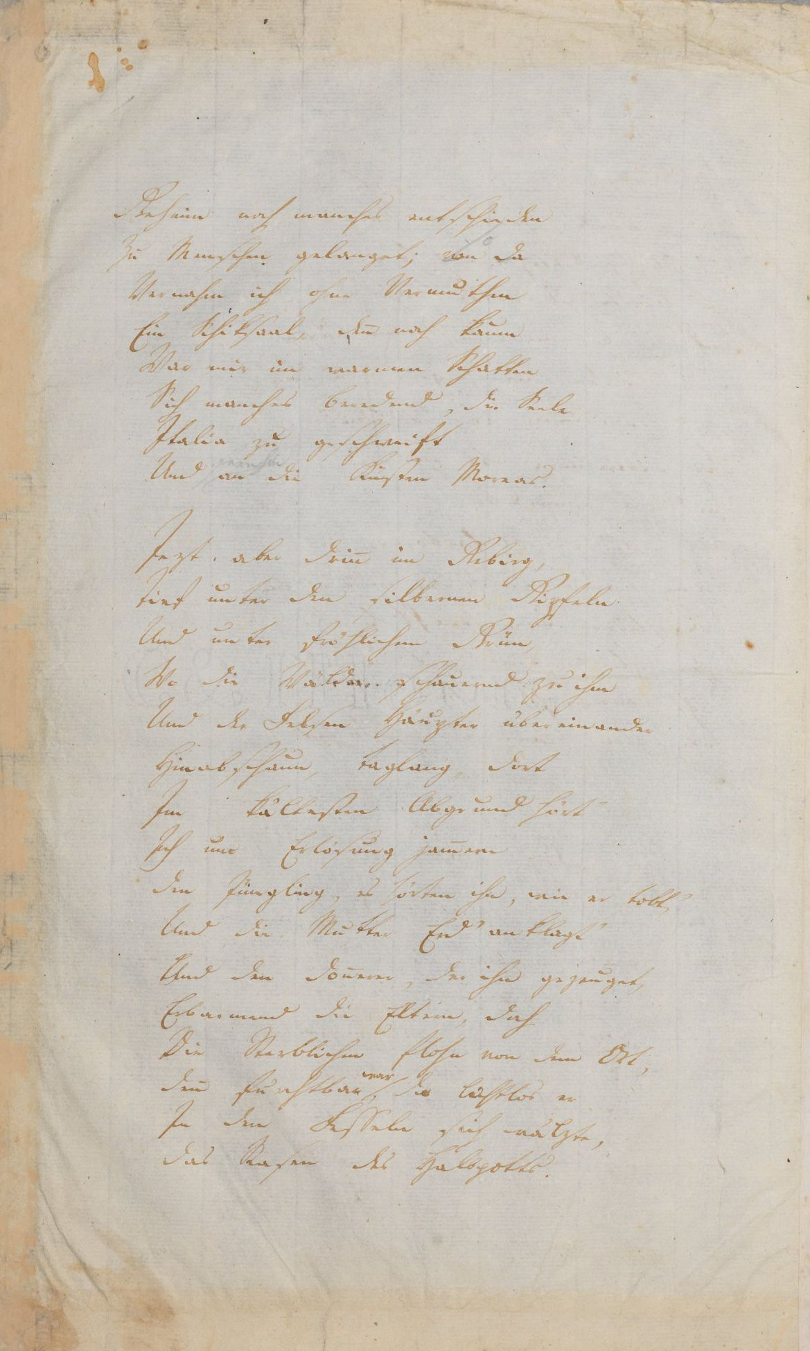 Manuscript of Friedrich Hölderlins poem "Der Rhein", Württembergische Landesbibliothek, page 2